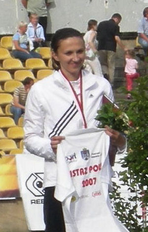 athlete from Poland during Polish Championship in athletics 2007 - Poznań